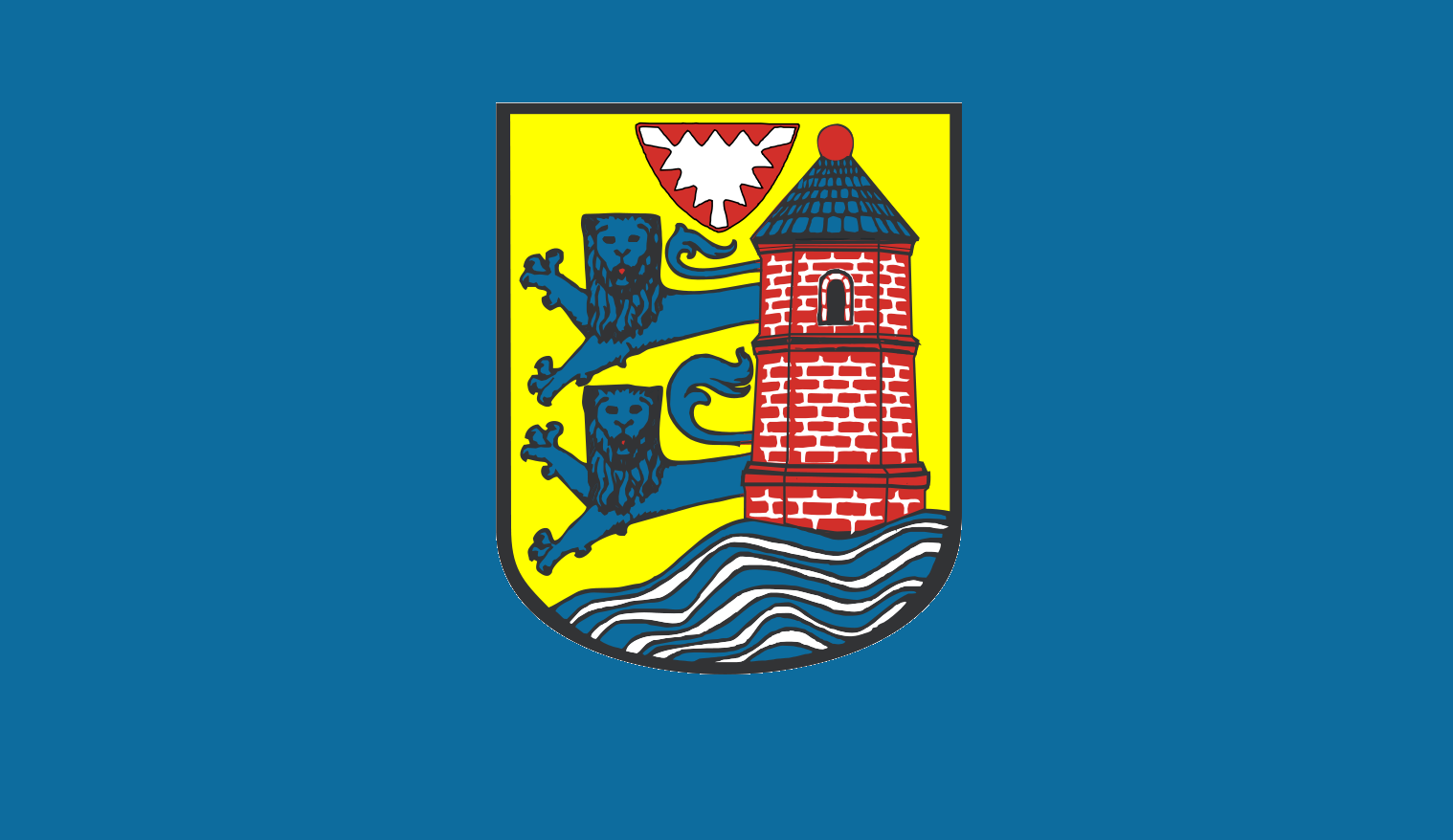 Flag of the city of Flensburg